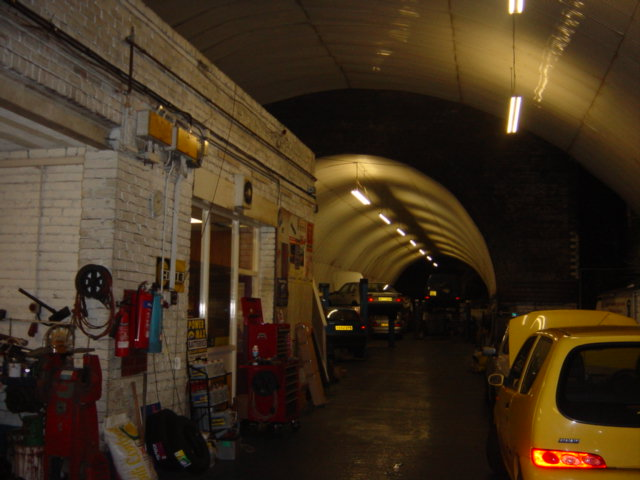 Dingle railway station Original description: Dingle Station, Overhead Railway Dingle station on a branchline of the Overhead Railway opened on 21/12/1896 and was closed 30/12/1956, the overhead structure of the railway being dismantled soon after but leaving behind this one station which although the platforms have been demolished, the ticket office and half mile of tunnel still exists today. The Overhead belied its name at this southern terminus, passengers new to Dingle no doubt wondering why they had to descend steps and a subway to gain the platforms of an elevated railway.